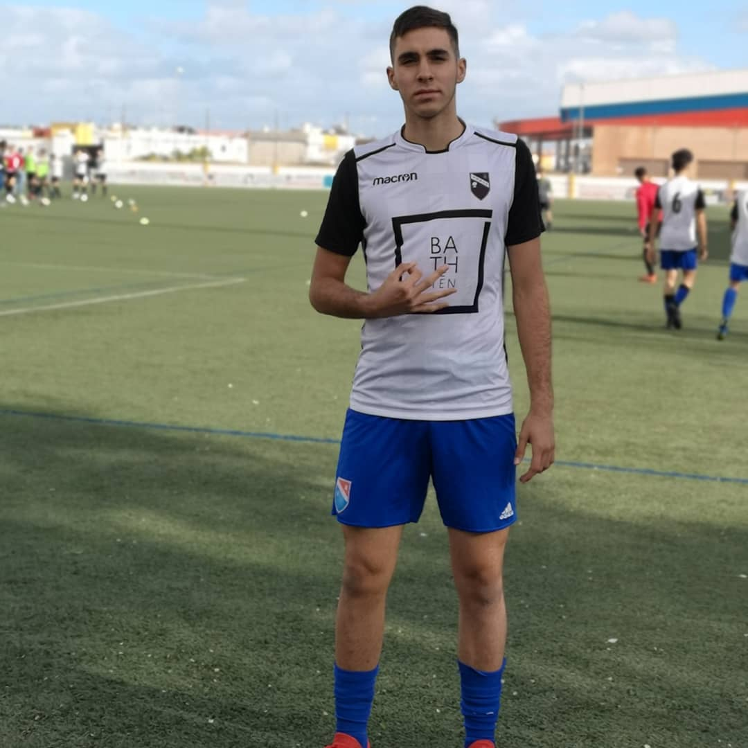 Rodney Woistchach en dos hermanas fc